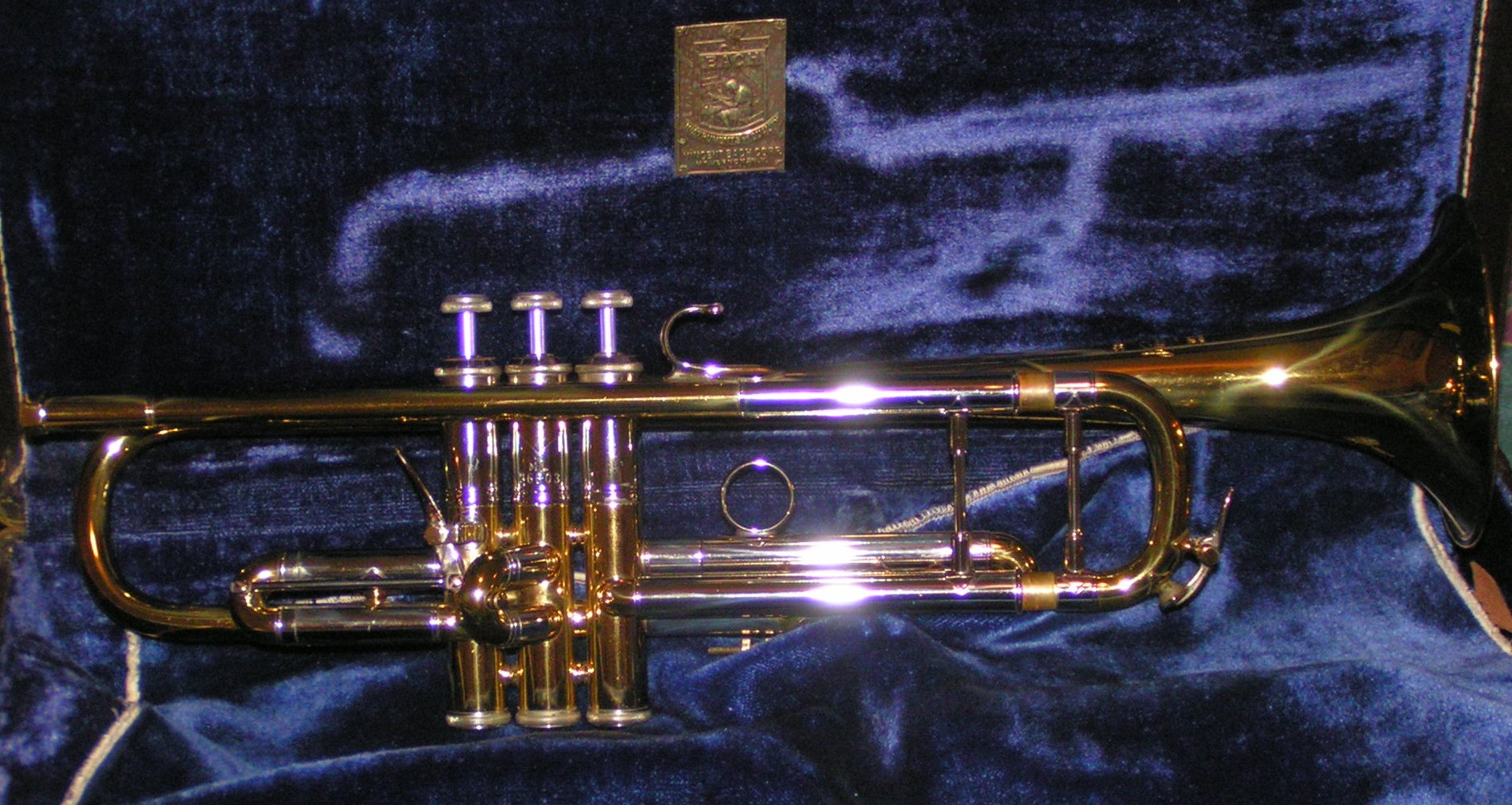 Mount Vernon Bach Trumpet Model 37 with 25 leadpipe and 1st slide trigger in lacquer. Manufactured at Mt. Vernon, shipped to Elkhart, modified, lacquered and sold from Elkhart in a Selmer-Bach case. Mid-26XXX serial #.